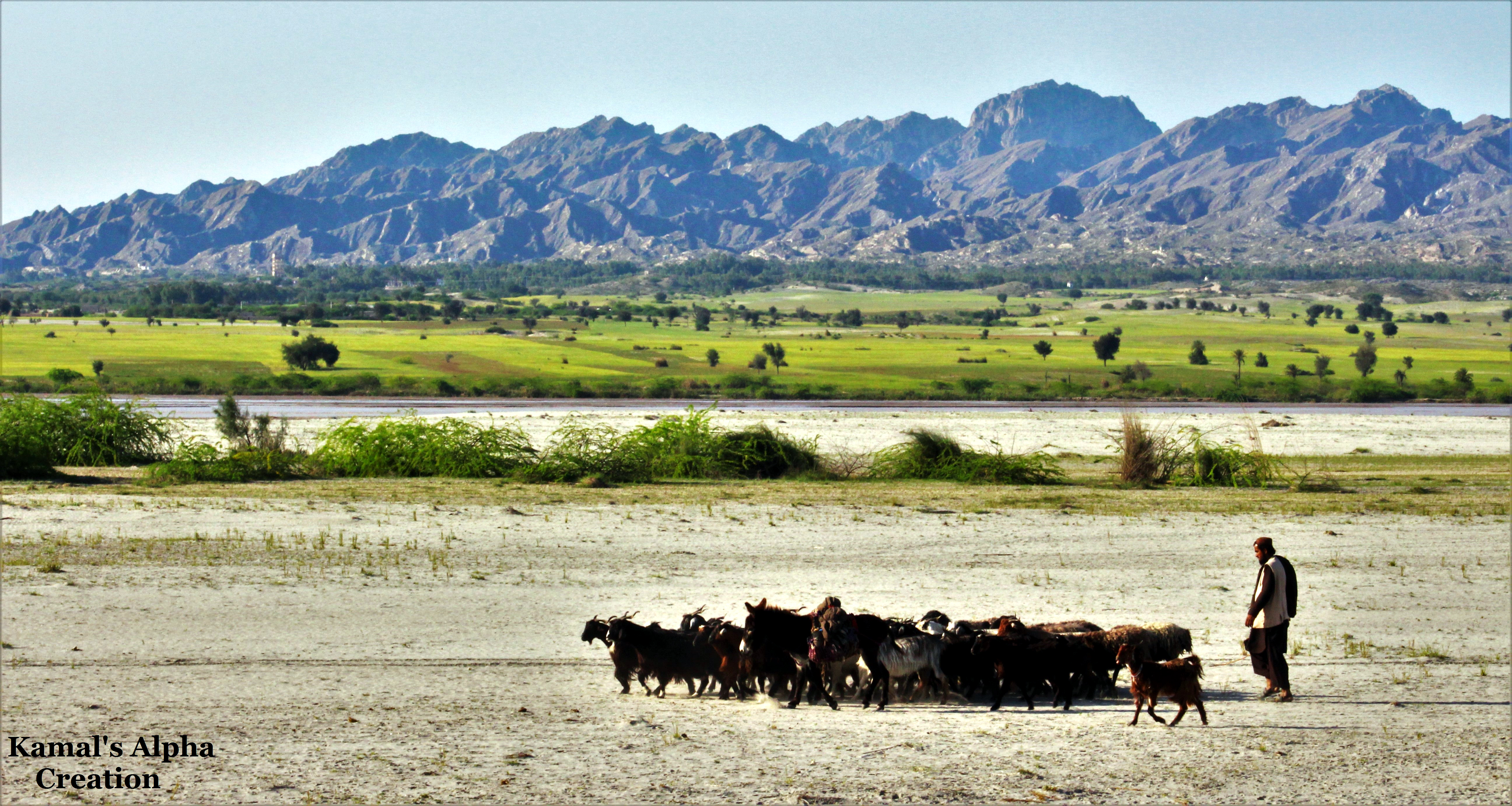 Khyber Pakhtunkhwa is a place of great natural beauty and is popular with tourists. Camera Settings And Info : Place: Swat, KPK, Pakistan. Captured by: Canon EOS 700D. F/stop: F/25. Focal Length: 75 mm. Flash Mode: No. Exposure bias: +0.3 step